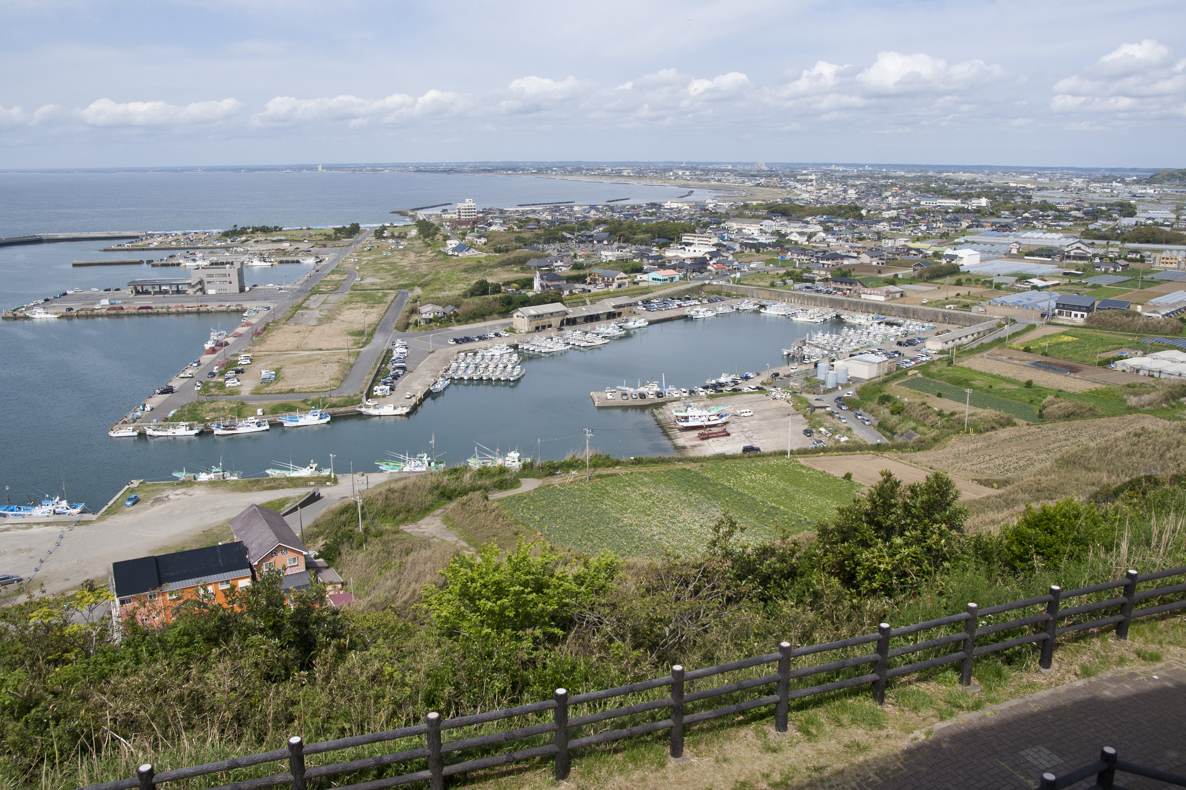 Iioka Fishing Port in Asahi City, Chiba Prefecture, Japan, as seen from Cape Gyobu